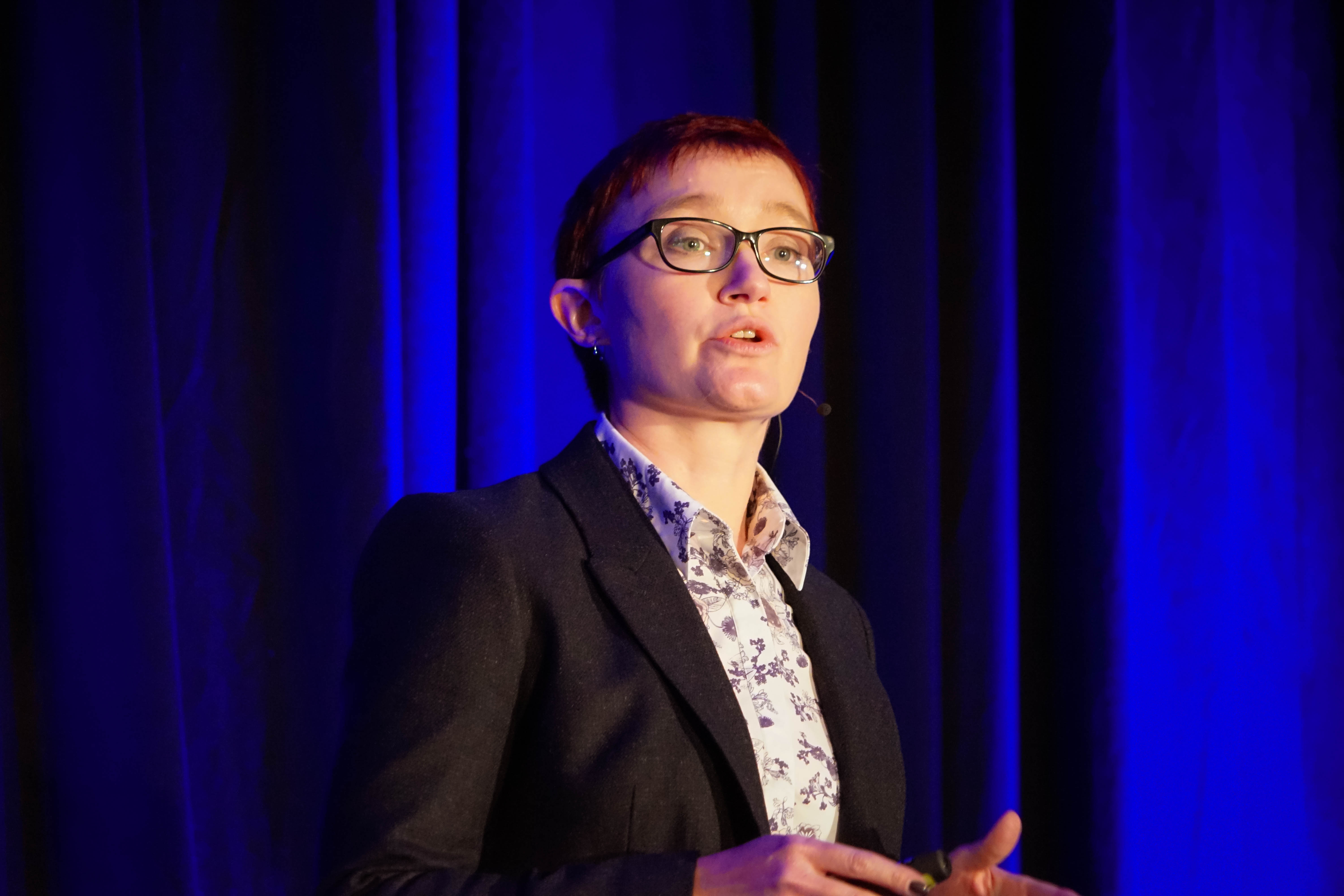 Rachel Andrew Rachel Andrew is a British web developer, author and speaker known for her expertise in HTML, CSS, JavaScript and PHP